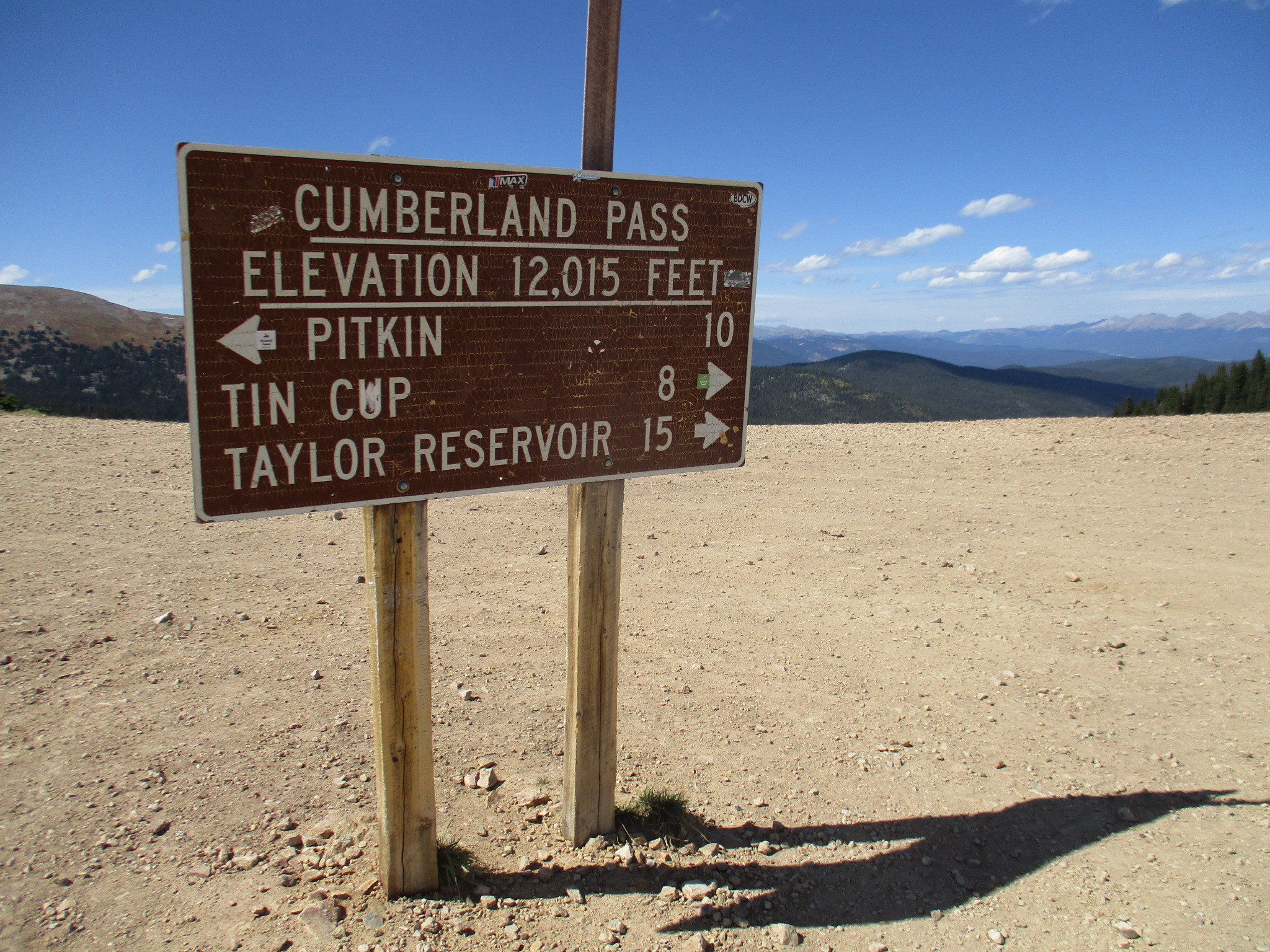 Cumberland Pass, elevation 12,015 ft (3,662 m), looking north northwest. Forest Road 765 traverses the pass, connecting the towns of Tin Cup to the north and Pitkin to the south. The pass is located in Gunnison County, Colorado.